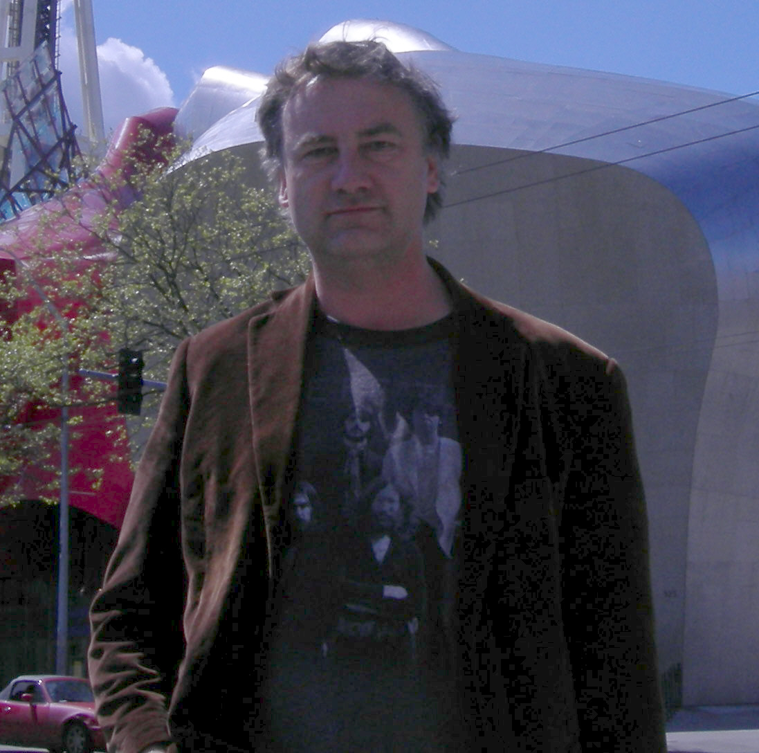 Matthew Bannister, musician, songwriter, and media theoretician. Picture taken outside Experience Music Project, Seattle, Washington, during the 2007 Pop Conference.